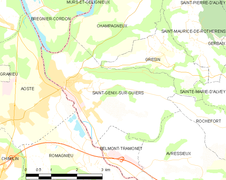 Map of French municipality